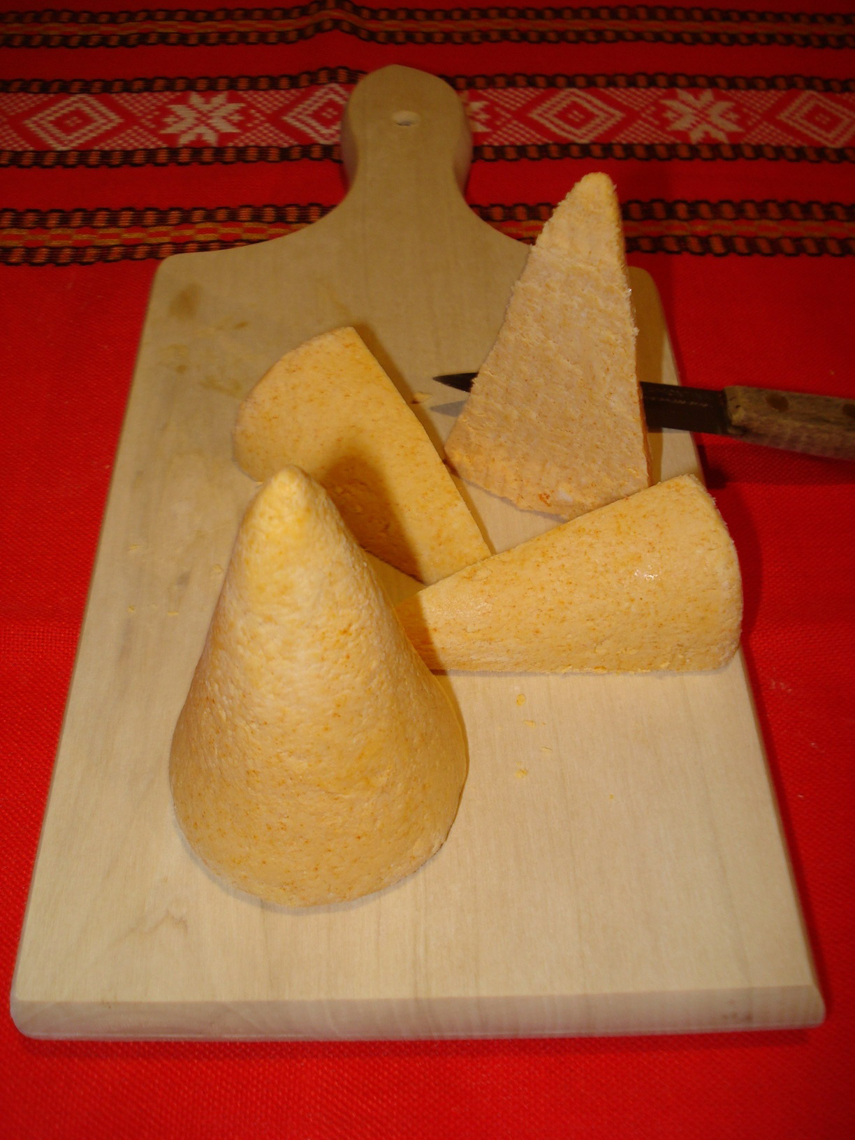 Toorosh - cheese from Međimurje County (Croatia).